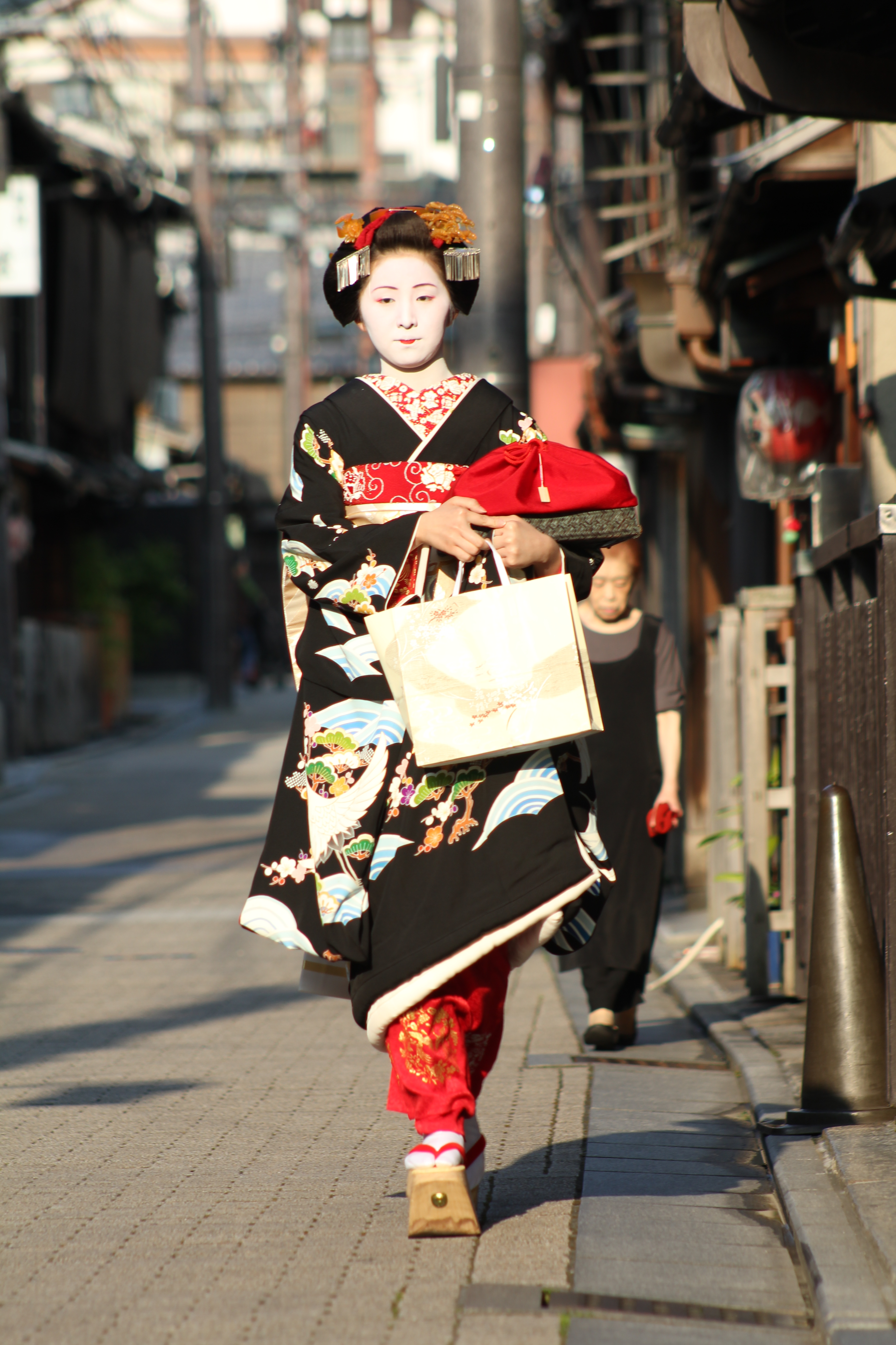 Maiko Fumino at the day of the beginning of her formal education “misedashi”